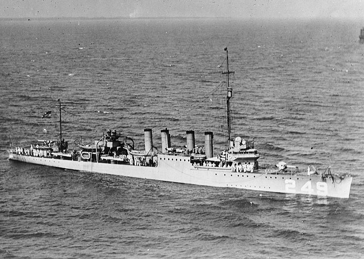 The U.S. Navy destroyer USS Hopkins (DD-249) photographed circa 1921.